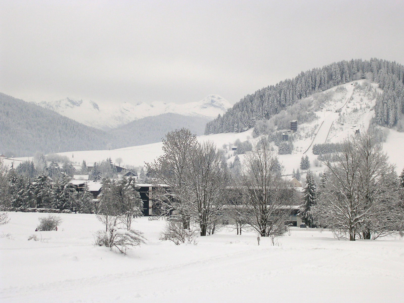 my own photograph